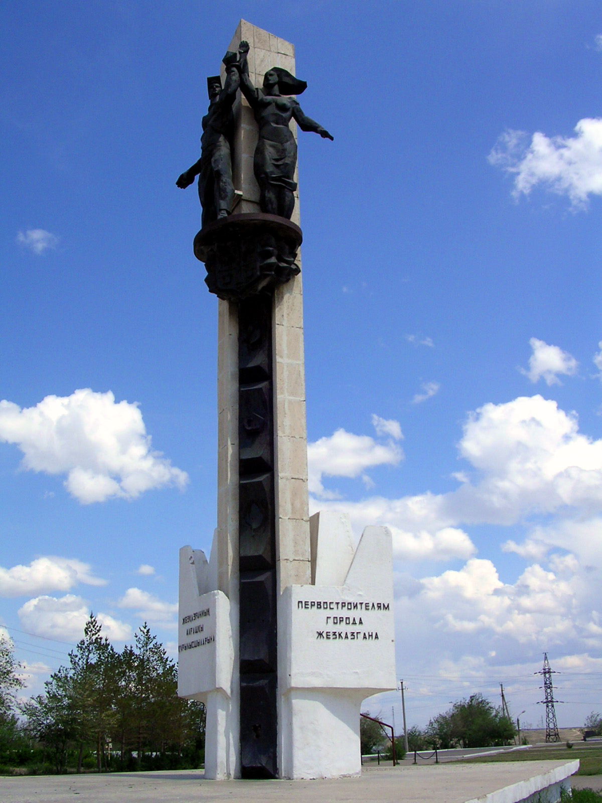 Monument to the Founders of the Town